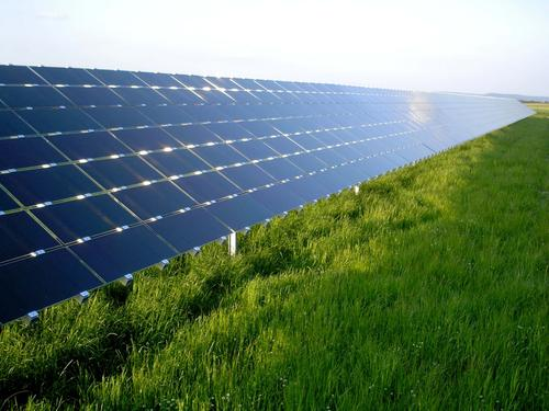 Thin-film PV array of CdTe solar modules manufactured by U.S. company First Solar